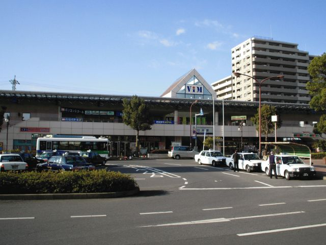 Keisei Usui Station south side